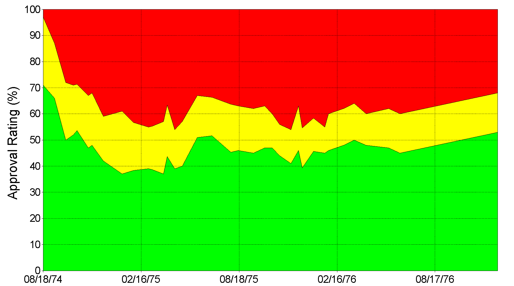 Approval Rating for President Gerald Ford. Data from Gallup Poll.